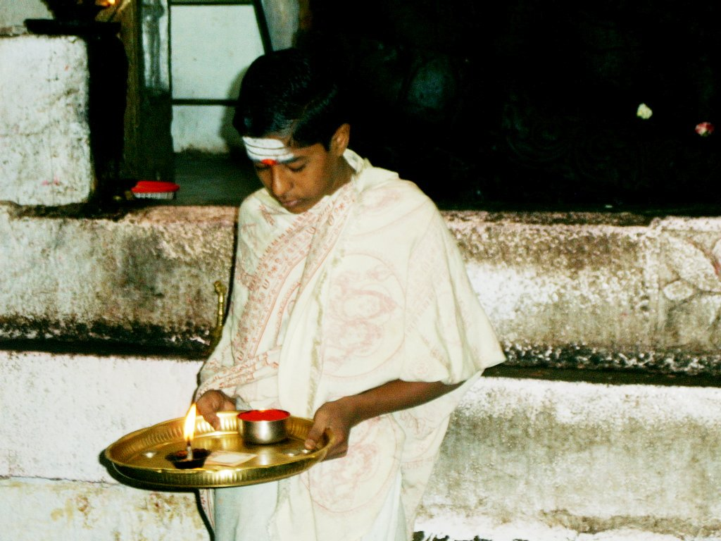 A boy in traditional Hindu clothes with forehead markings holds a tray with a burning light and a pot of kum kum powder on it in an aarti plate, also seems is donations given by devotees Original description: This young man is accepting offerings while holding the burning lamp and red ochre powder for worshippers to make a mark on their forehead. This man also has a set of three lines, made with ashes, whichi is also often seen but is less common.